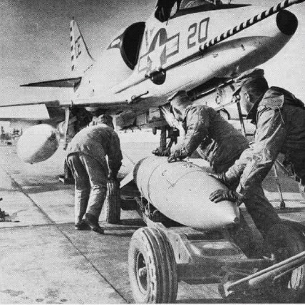 A Douglas A-4C Skyhawk of Marine attack squadron VMA-225 Vagabonds at Marine Corps Air Station Iwakuni, Japan, in 1965. VMA-225 was soon to be deployed to Vietnam.